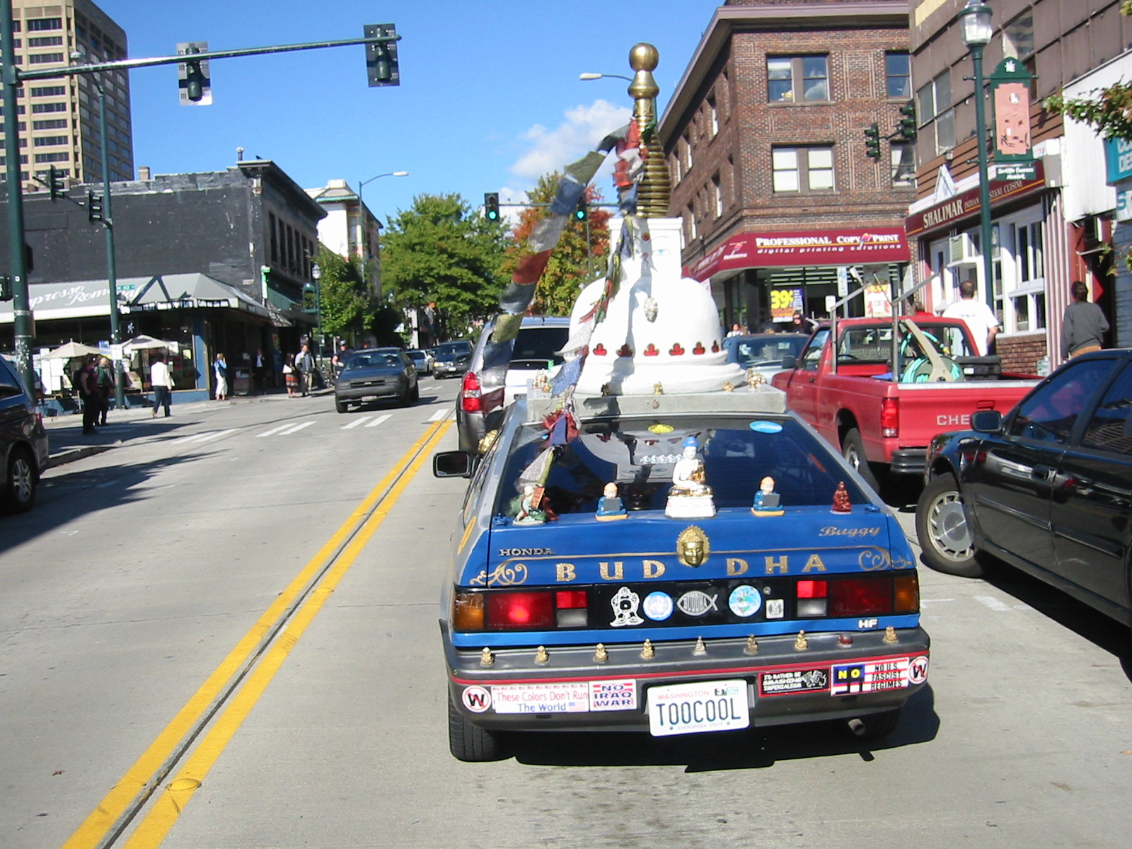 Bumper stickers and decorations on a Honda sedan. A 1987 Honda CRX, the Buddha Buggy features a 1.6 m high detachable Nepalese Buddhist stupa on the roof, with strings of prayer flags running up to the golden pinnacle of the stupa. In back, a 300 mm golden Buddha, holding a miniature pagoda, is flanked by intent Laptop Buddhas. These are but a few of the 50 golden statuettes, mostly on Buddhist or Asian spiritual themes, that adorn the car and stupa. Adding to the effect are twirling yin-yang hubcaps, psychedelic-era stickers, and the vanity license plates, TOOCOOL. Not visible are the image is a 330 mm high porcelain Amitabha Buddha in its niche in the stupa, and paintings of the Buddha], comic dragons, a cartoon portrait of the owner, comets, a flying saucer with 2 green aliens, and toothy, two-legged fishes. The car's interior includes a velvet altarcloth-draped dashboard with brass Tibetan incense burners, statues, and gold tassels; a painted explosion of cosmic love inside the doors; and a temporary installation of spiritual beings meditating in a circle in the back cargo area. The Buddha Buggy is the work of its Seattle, Washington owner, Larry Neilson, and his many collaborators. It has appeared at Art Car events all over the western U.S. and Canada, including the Tacoma_Art_Museum and San Jose (CA) Museum of Art. Professional Copy and Print (right) is visible as well